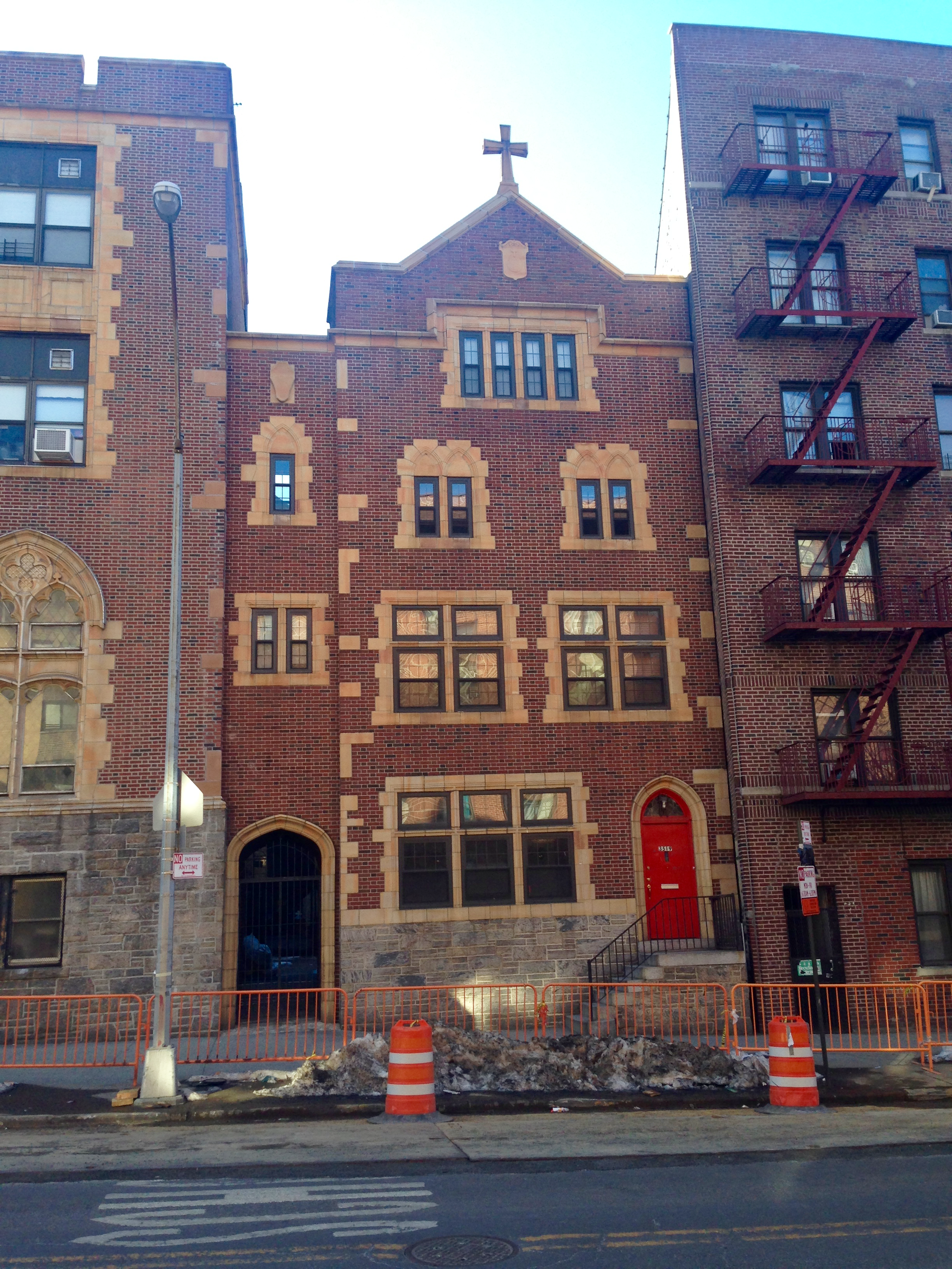 Shrine Church of St. Ann (Bronx) and school in Norwood, Bronx, NY, USA